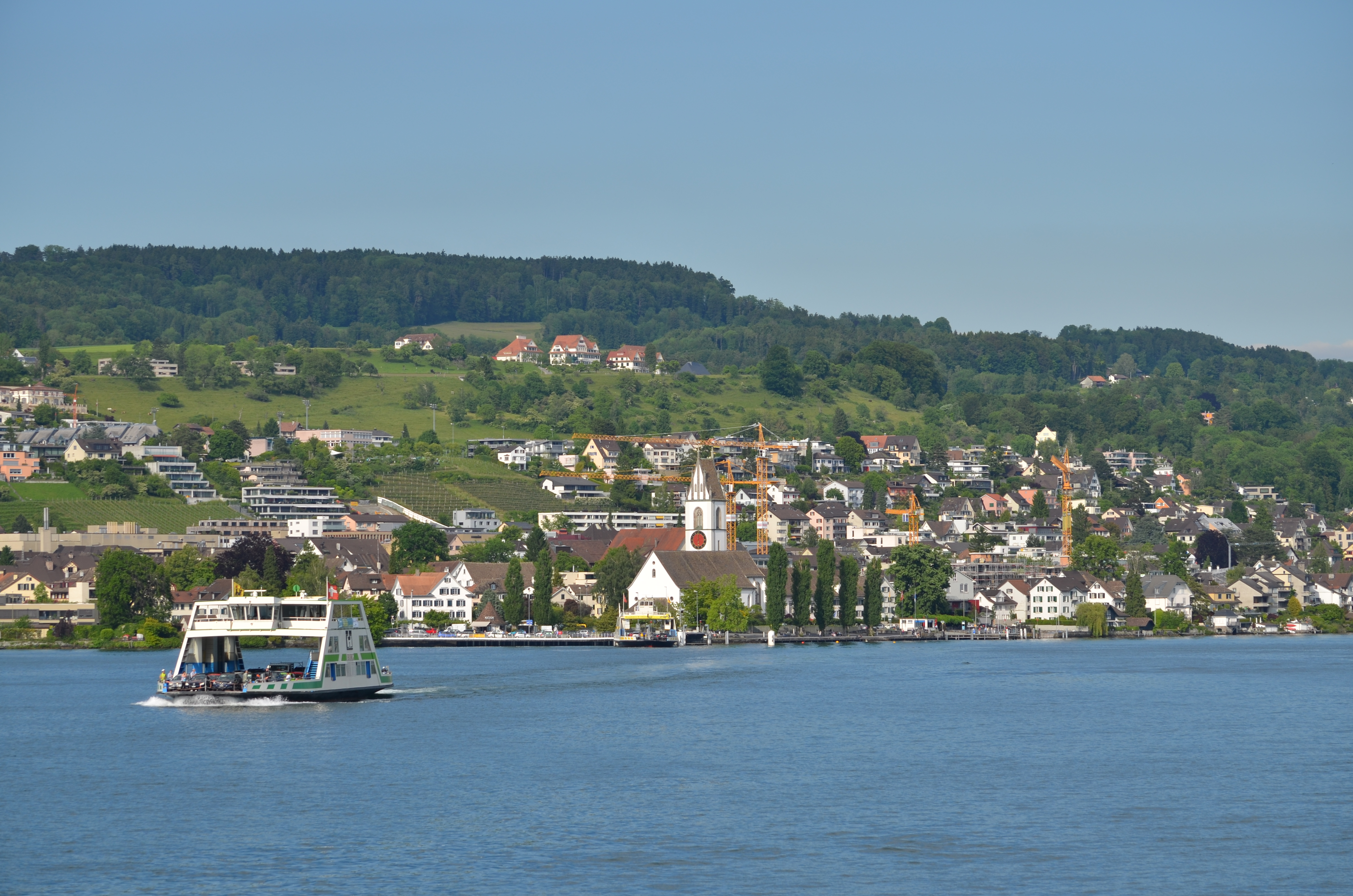 Views from FS Horgen on Zürichsee in Switzerland : Meilen and Pfannenstiel region